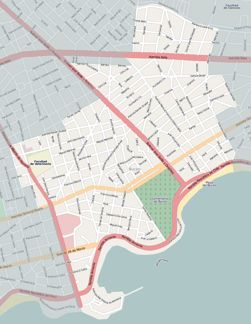 Map of Buceo, Montevideo, Uruguay. Added shading to delimit the barrio.